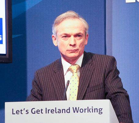 Richard Bruton at Fine Gael conference